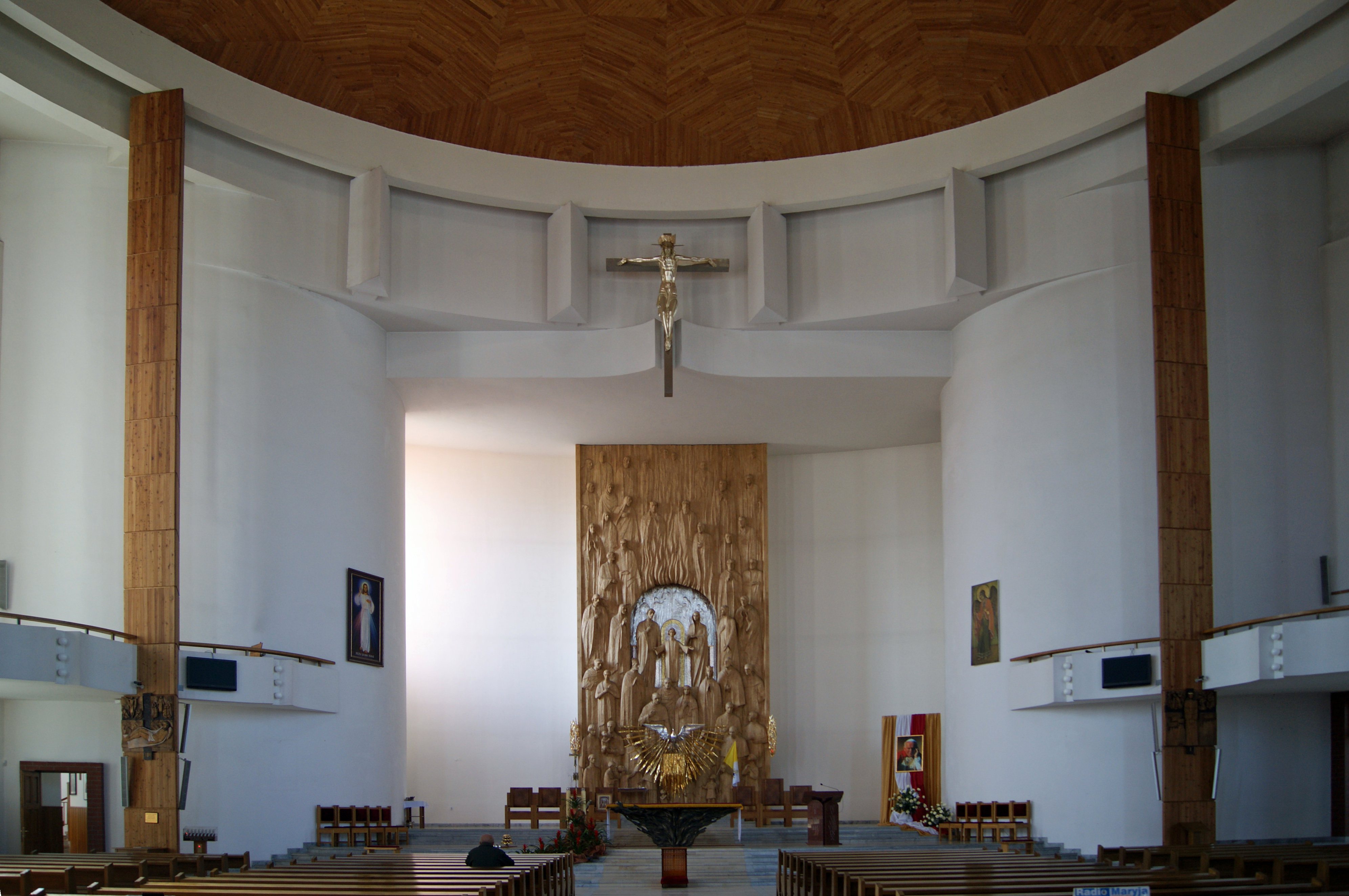 Holy Family Church (inside), 1 Aleksandry str, Krakow, Poland